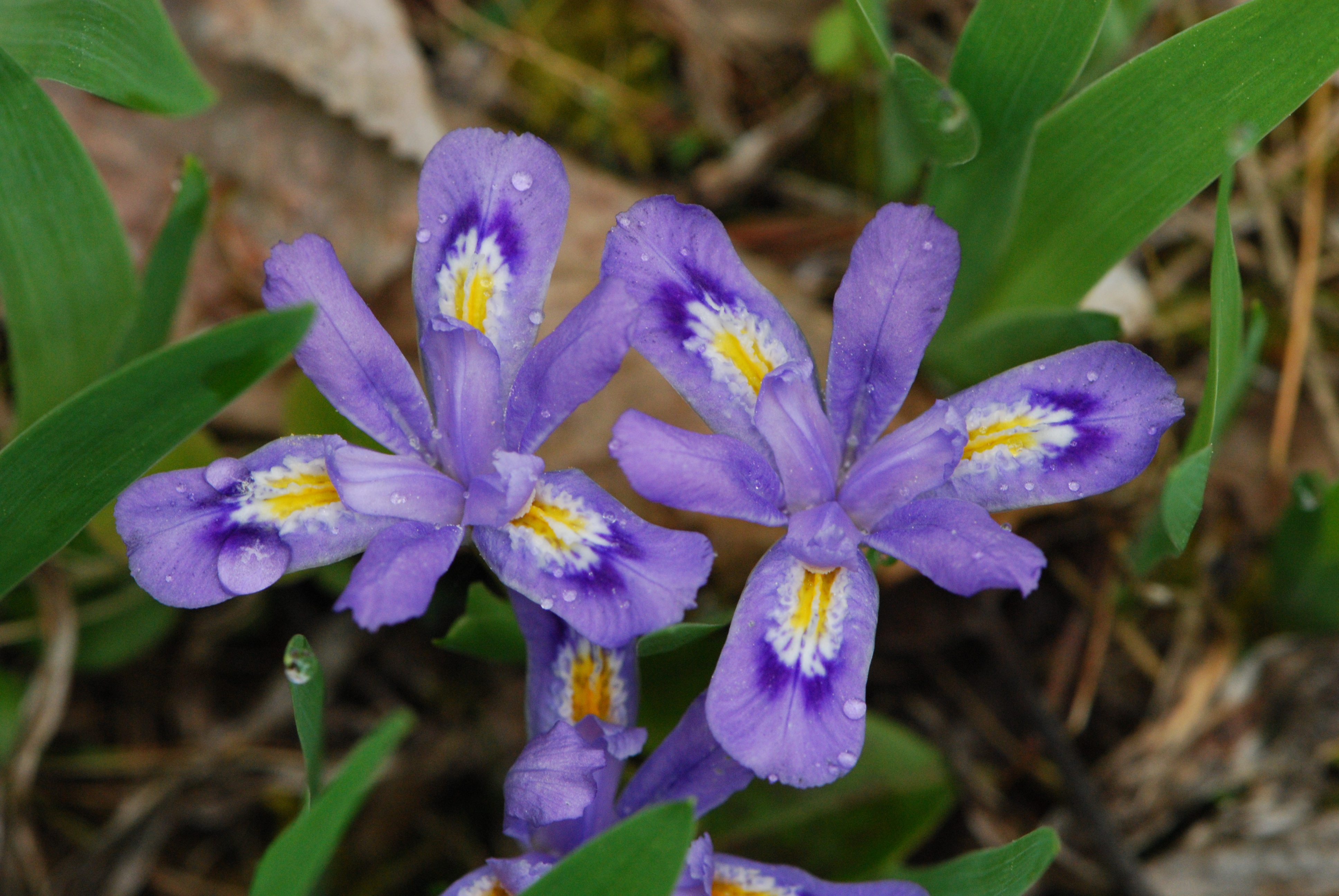 Iris lacustris, Peninsula Park White Cedar Forest Wisconsin State Natural Area #13 Peninsula State Park Door County